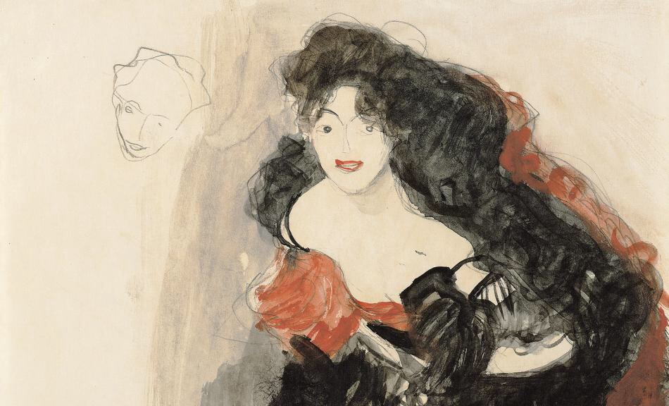 Study for Judith 2